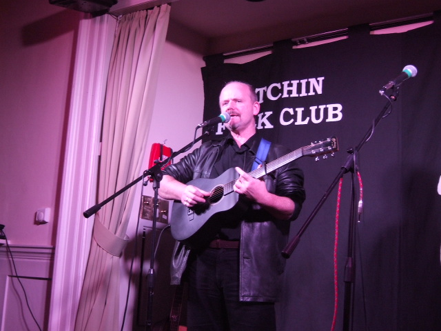 A self-taken photograph of Anthony in Hitchin